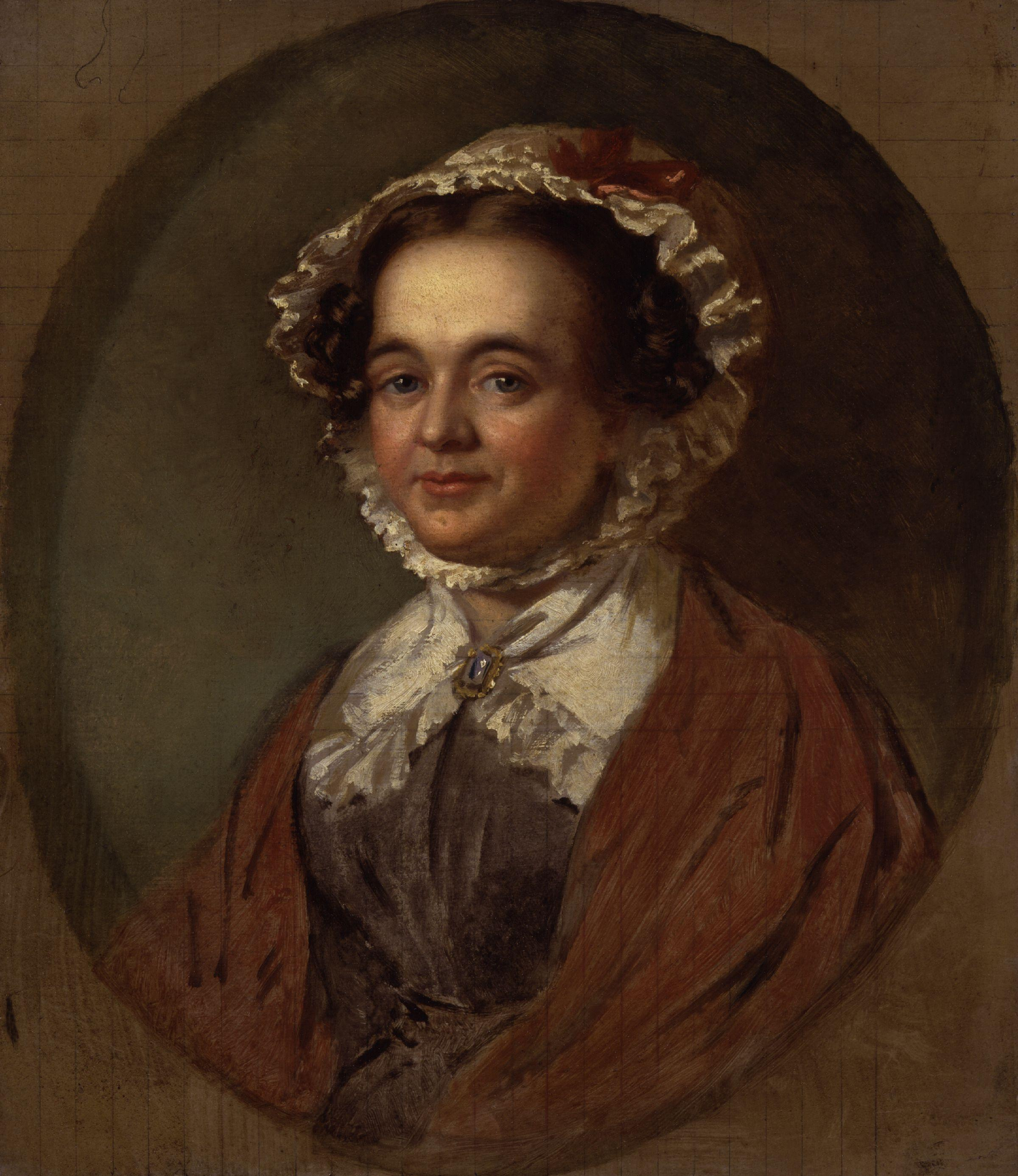 Mary Russell Mitford, by Benjamin Robert Haydon (died 1846). All images in this batch have been confirmed as author died before 1939 according to the official death date listed by the NPG.